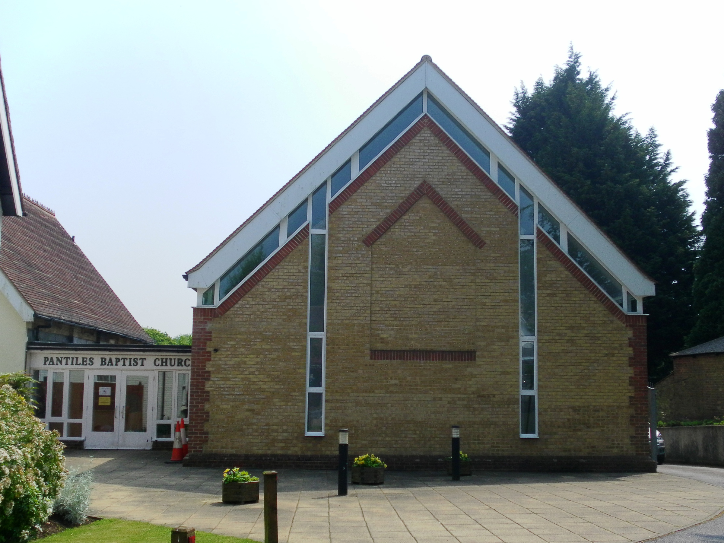 Pantiles Baptist Church, 73 Frant Road, Royal Tunbridge Wells, Borough of Tunbridge Wells, Kent, England. A Strict Baptist chapel opened after the congregations of the former Grove Hill and Rehoboth chapels merged.